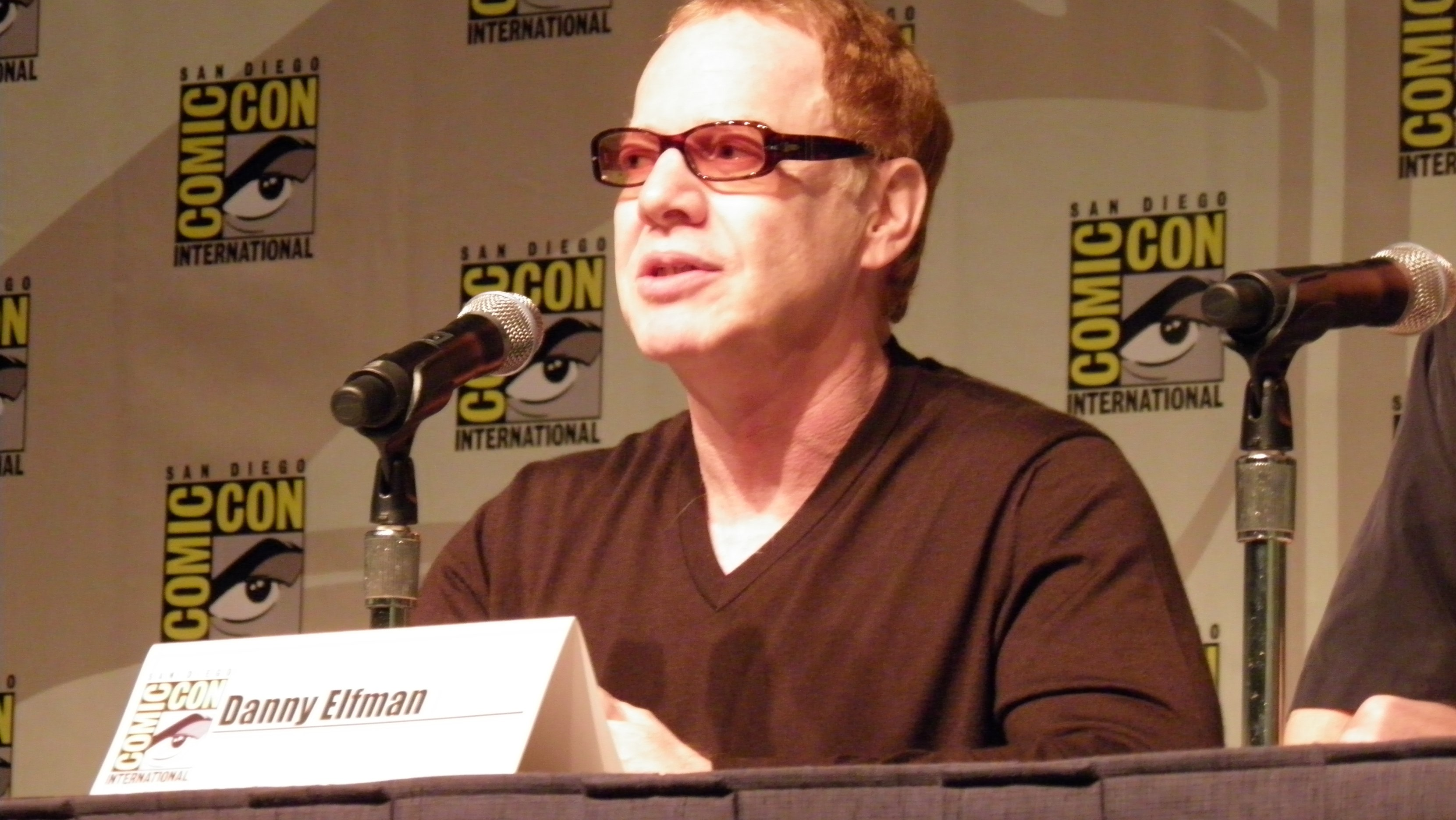 Danny Elfman speaking at 2010 San Diego Comic-Con International.